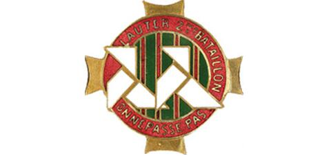 Regimental badge of the 22nd Infantry Regiment fortress (1940 France).